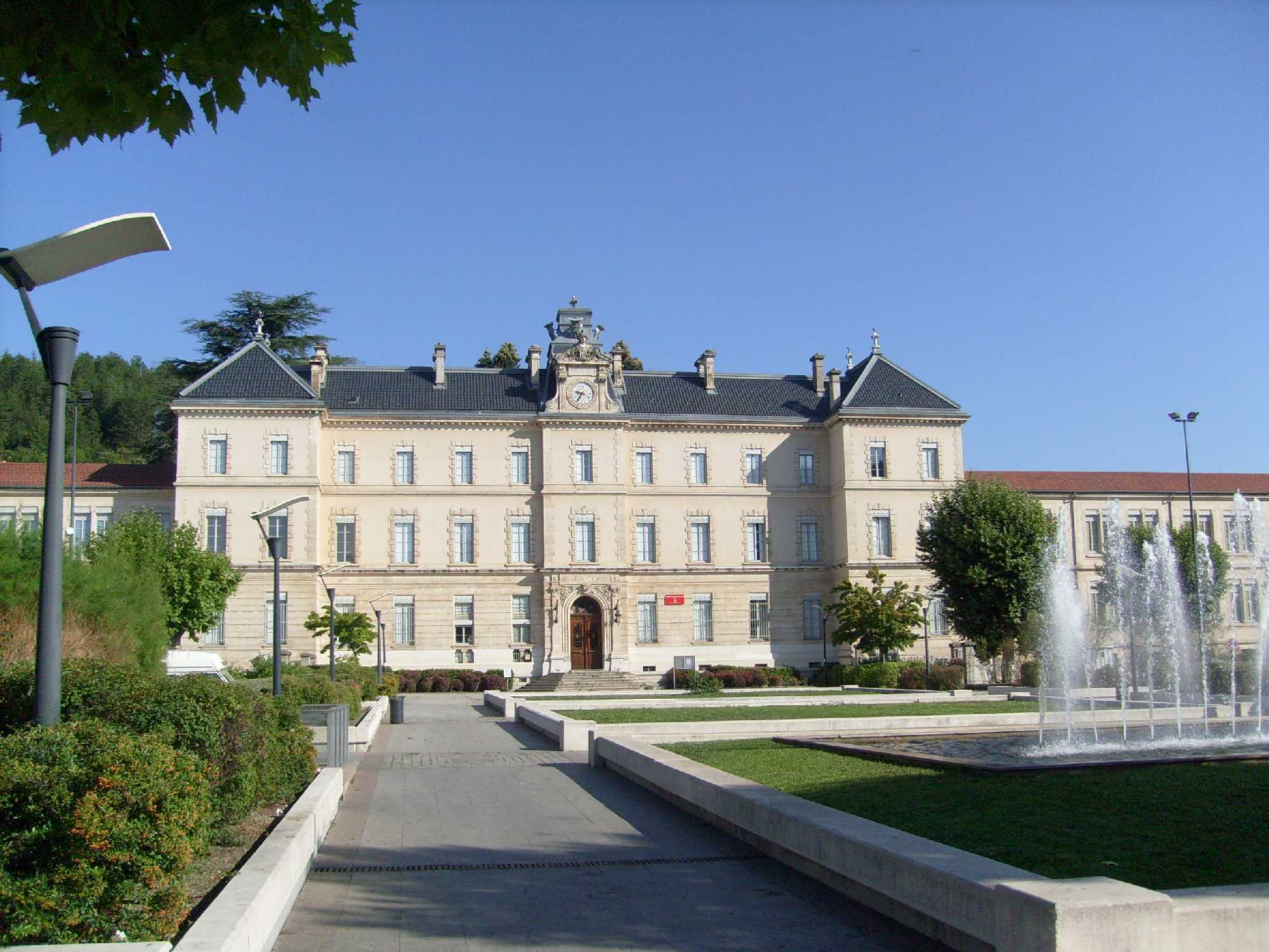 Dominique Villars secondary school, Gap( Hautes-Alpes, France).